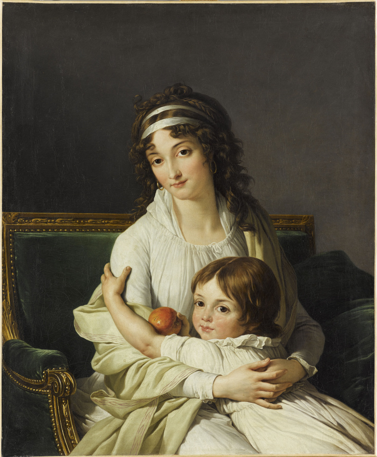 Madame Boyer-Fonfrède and Son by François-André Vincent, 1796, oil on canvas, 96 x 79 cm, Musée du Louvre